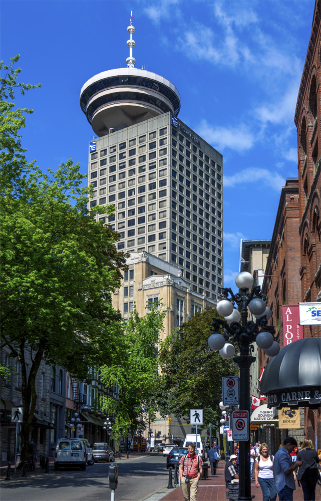 Harbour Centre office tower in Vancouver.